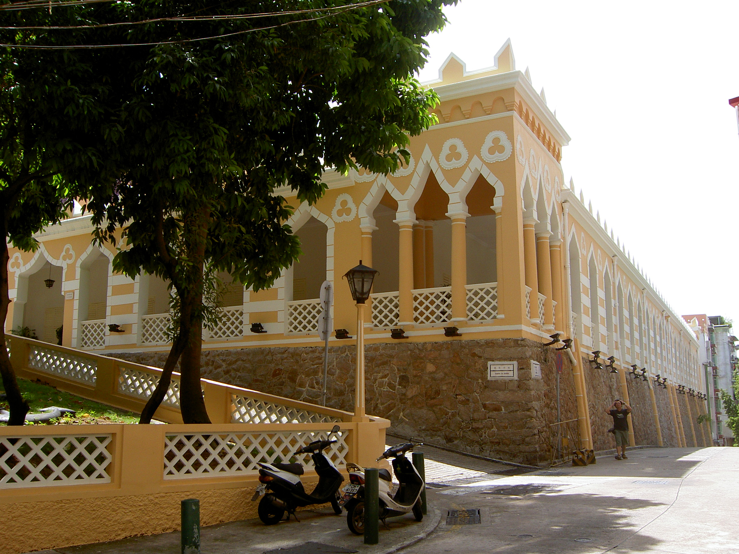 Moorish Barracks. Moorish Barracks is a part of the Historic Centre of Macau, a UNESCO's World Heritage Site. Photo taken by Netsonfong.